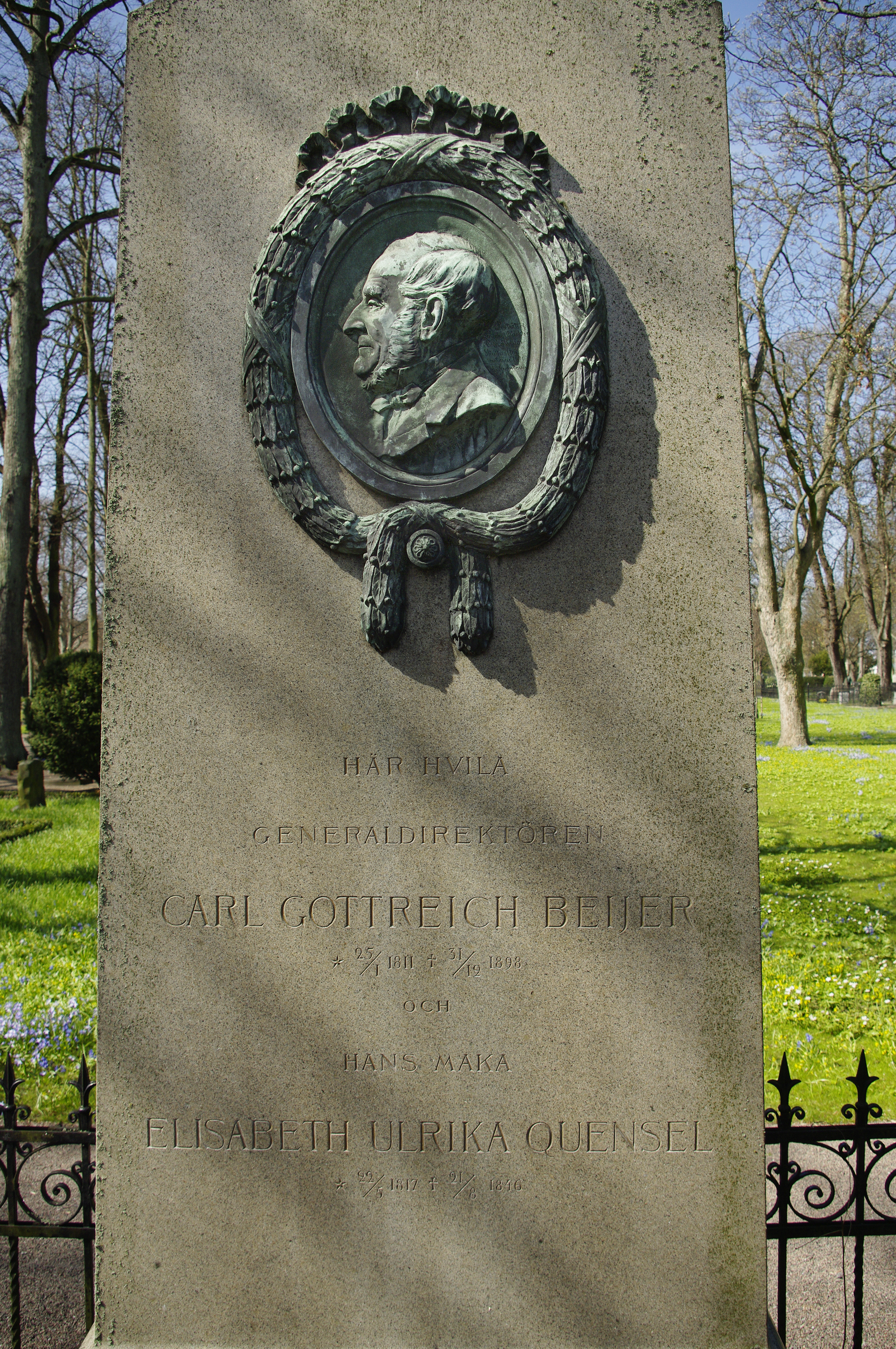 CG Beijer gravestone Malmö Sweden